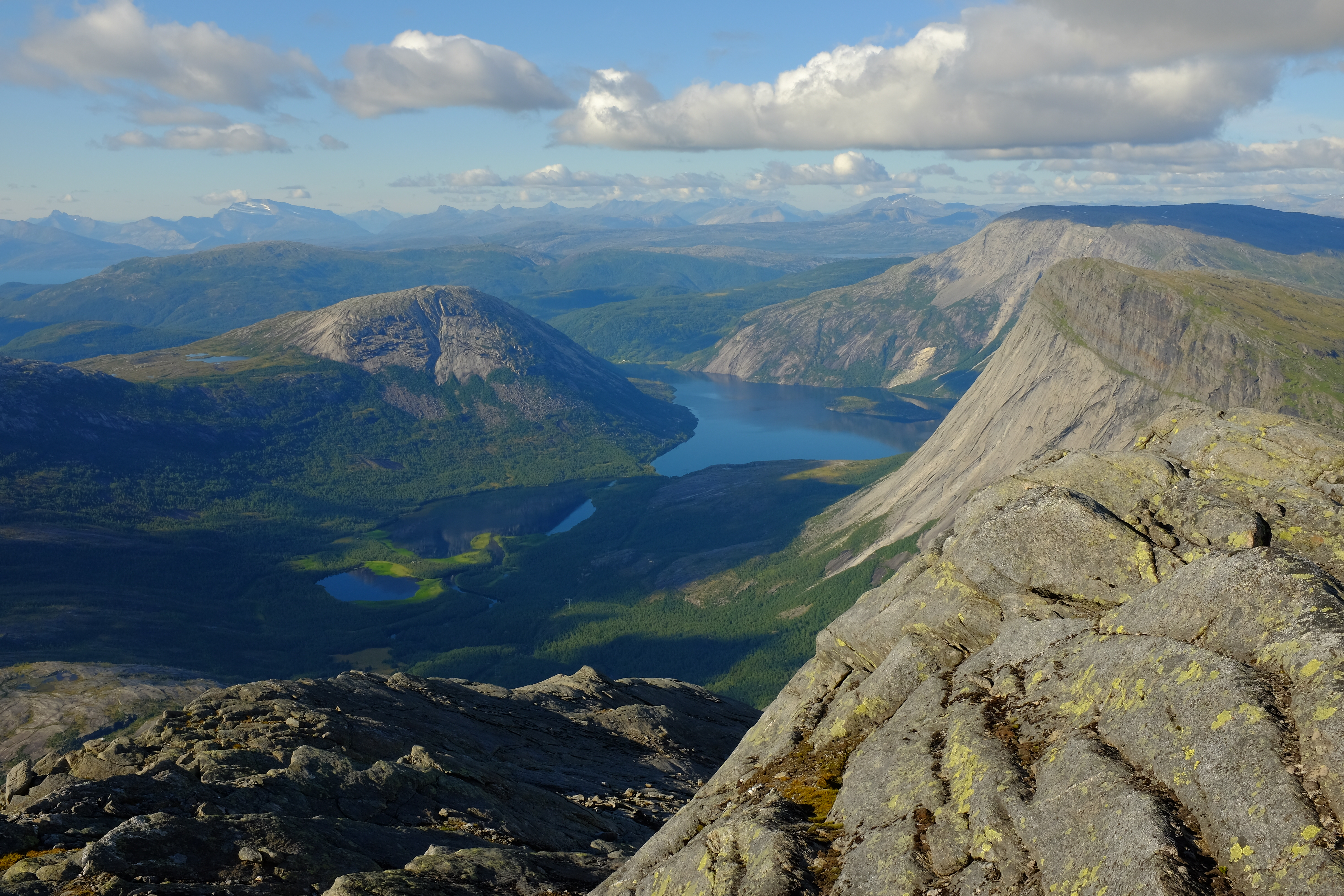 Andkjelvatnet is a lake in Sørfold in Nordland, Norway. Andkjelvatnet has its outlet through Andkjelfossen and Tørrfjordelva river to Tørrfjorden.